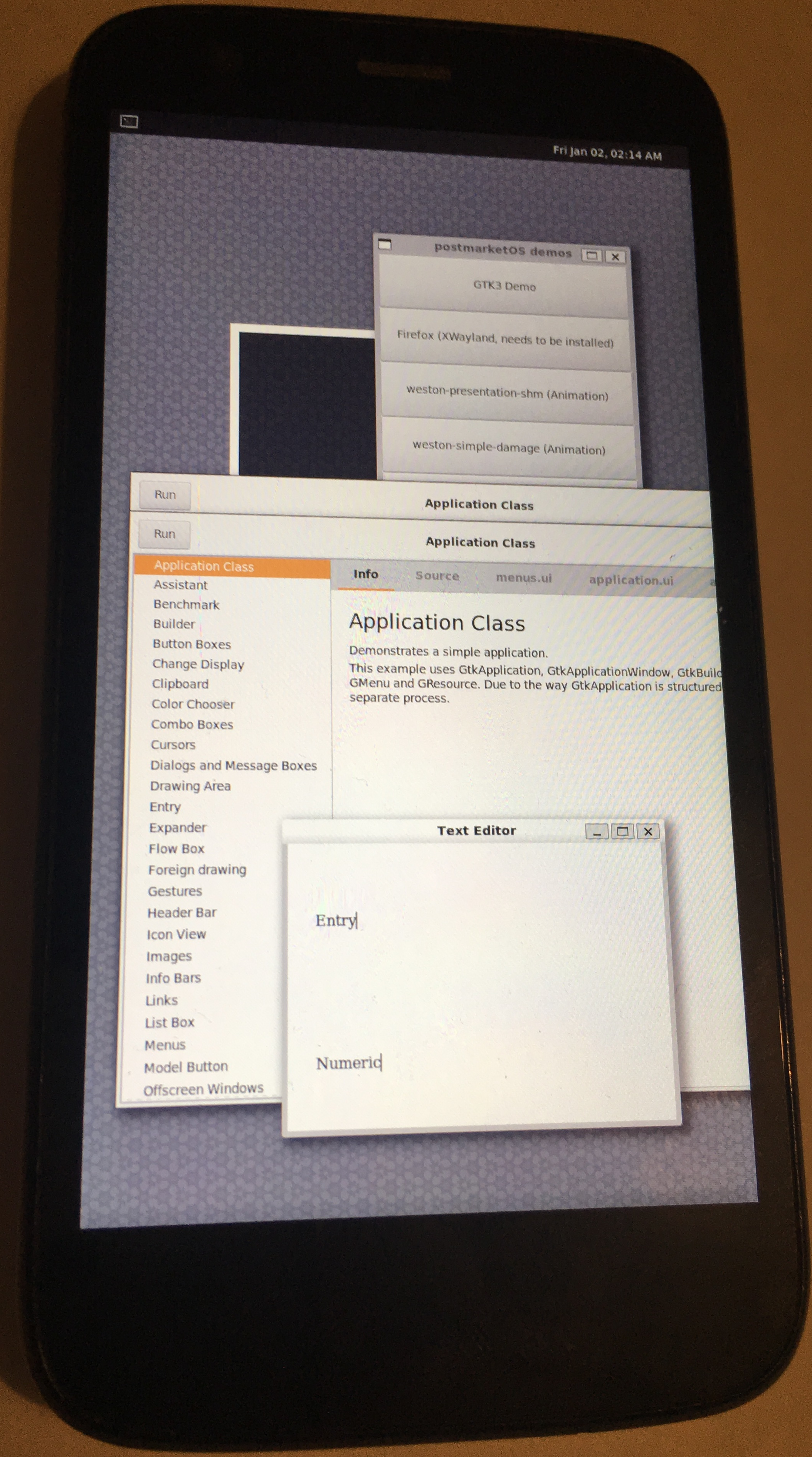 Weston compositor running on postmarketOS